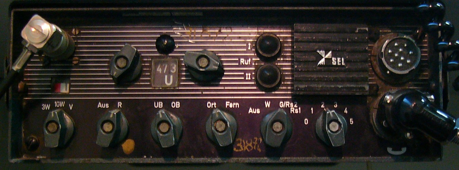 German SEL FuG 7b Radio transceiver.